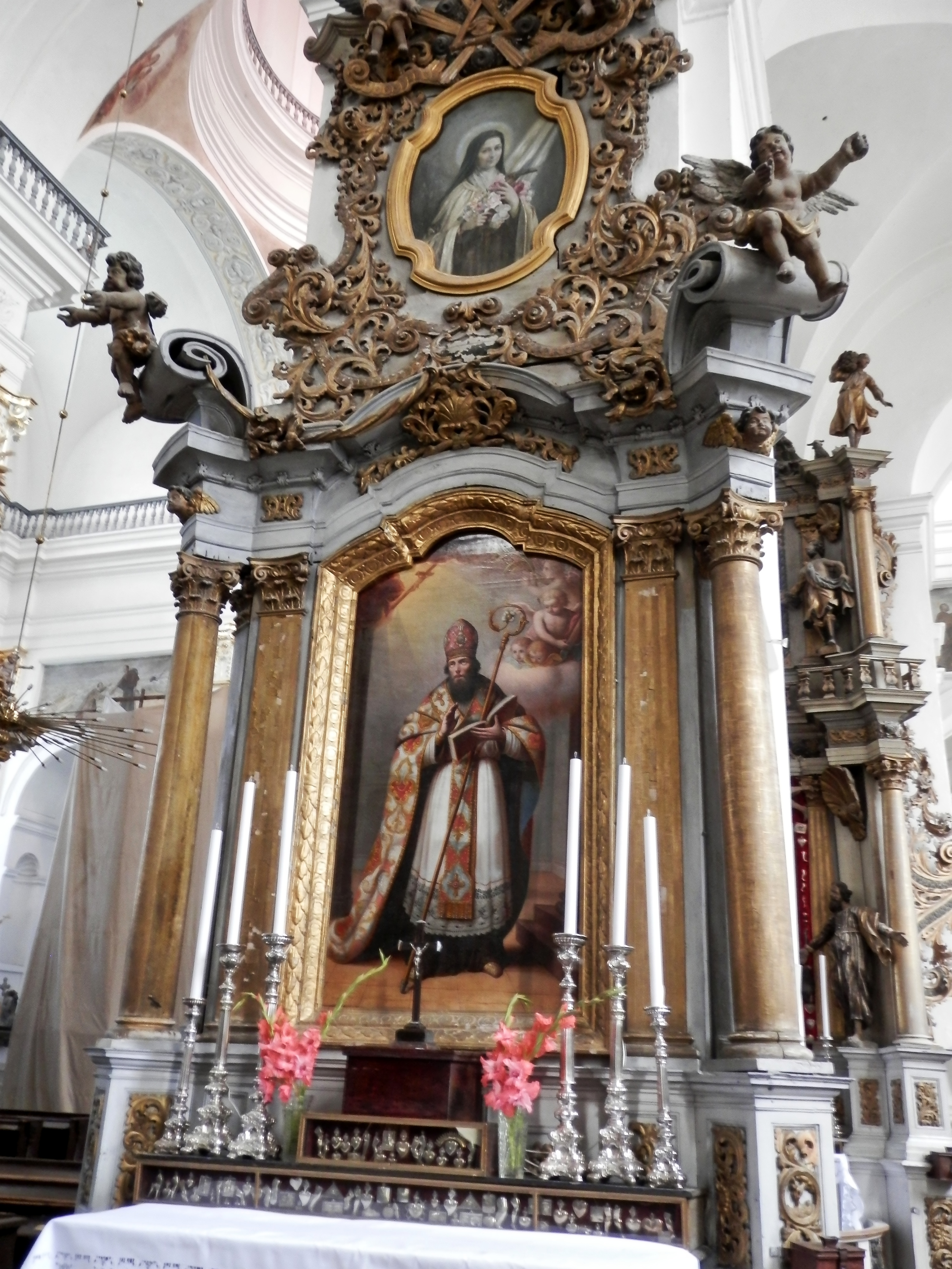 St. Francis Xavier Cathedral, Grodno